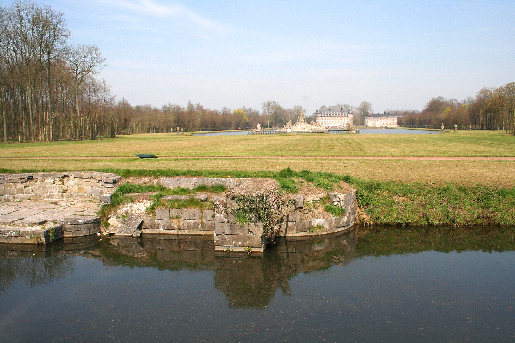 Belœil (Belgium), the Princes de Ligne castle and his remarkable park (XVIIth century).